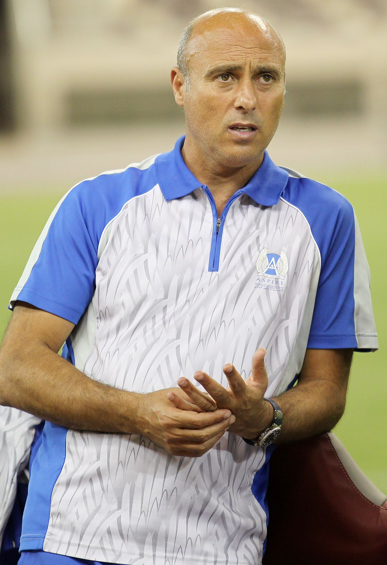 Aspire dreams coach Tintín Márquez during a match. Picture by AK Bijuraj